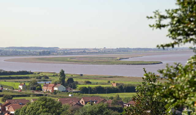 Read's Island Photo taken from a position on Middlegate Lane near South Ferriby Church.